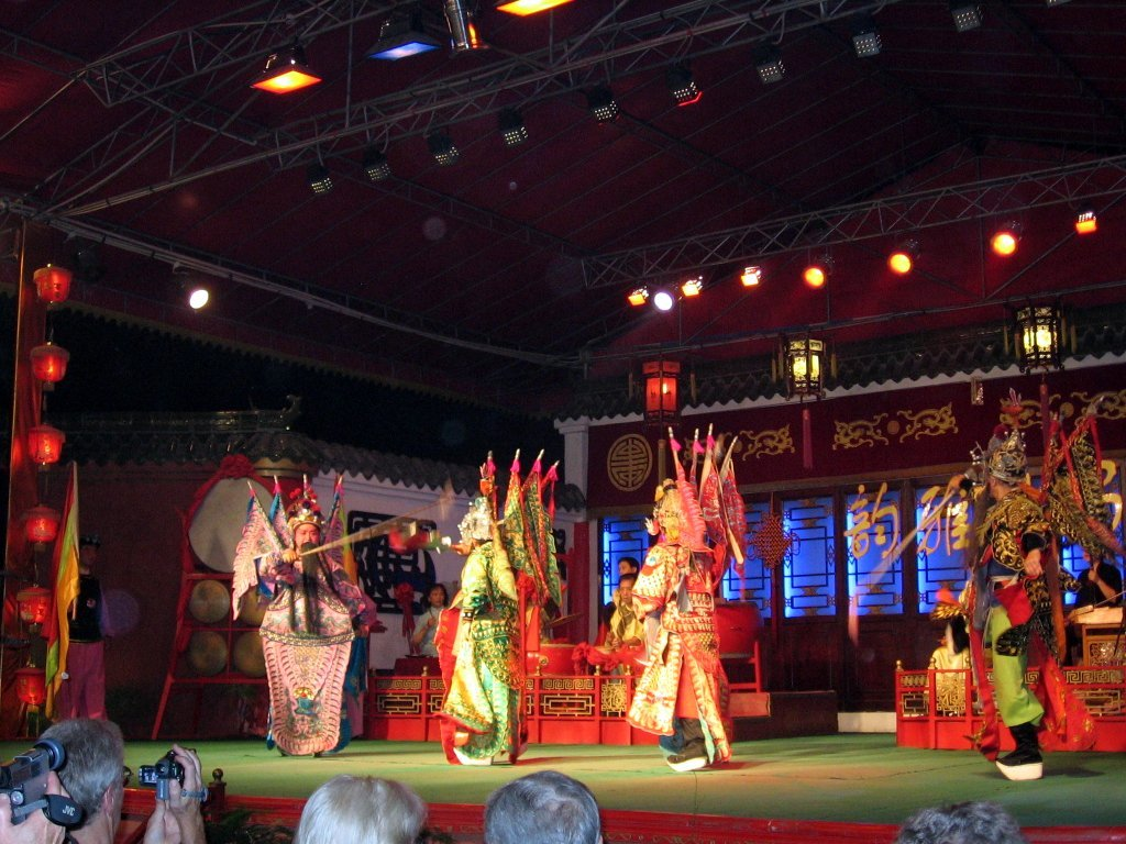 Sichuan opera in Chengdu. Actors.